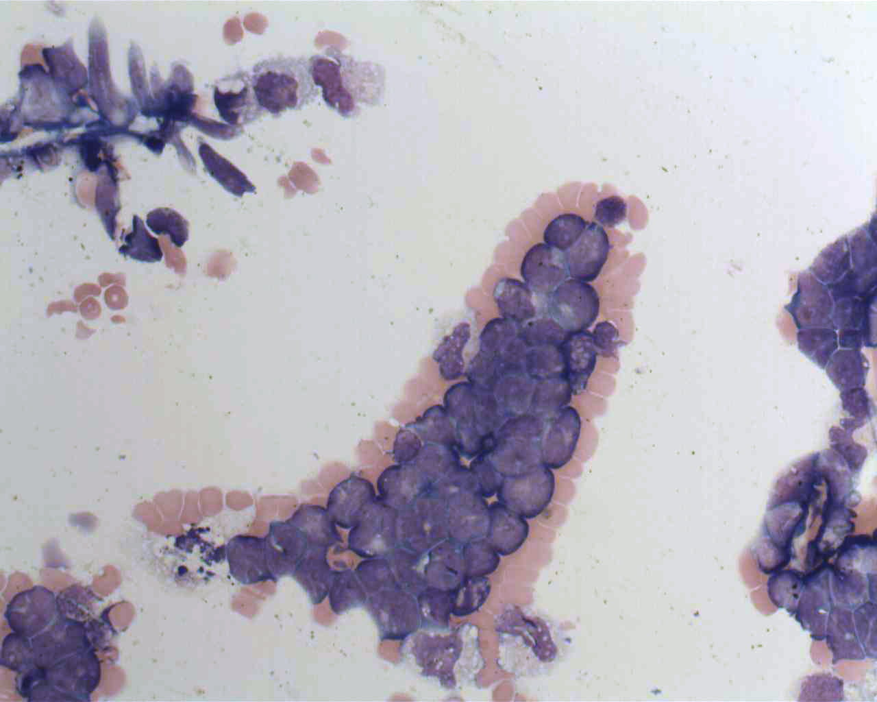 Lymphoma cell can metastasize and spread into the CSF. Cytospins positive film from a lymphoma patient showing a cluster of blastoid cells.